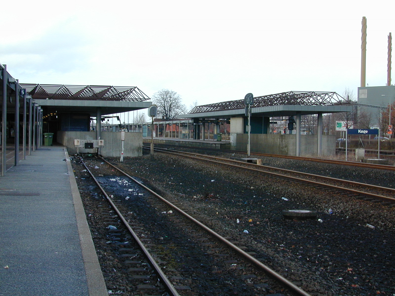 Danish railway station Køge track 3 and 4 seen from track 5